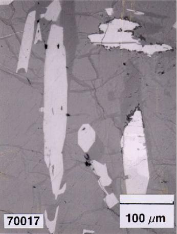 Barrel-shaped armalcolite (tapered here in the elongate direction; hexagonal in cross section.) Reflected light photo. Public domain image courtesy of NASA. (NASA Lunar Petrographic Educational Thin Section Set, C Meyer - 2003) Locality: Apollo 17 landing site, Taurus-Littrow Valley, The Moon